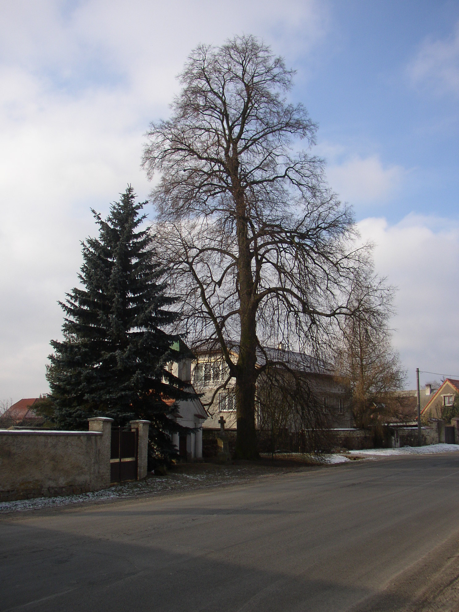 Lípa ve Pticích ("Lime in Ptice"), protected example of Small-leaved Lime (Tilia cordata) in village of Ptice, Prague-West District, Central Bohemian Region, Czech Republic.